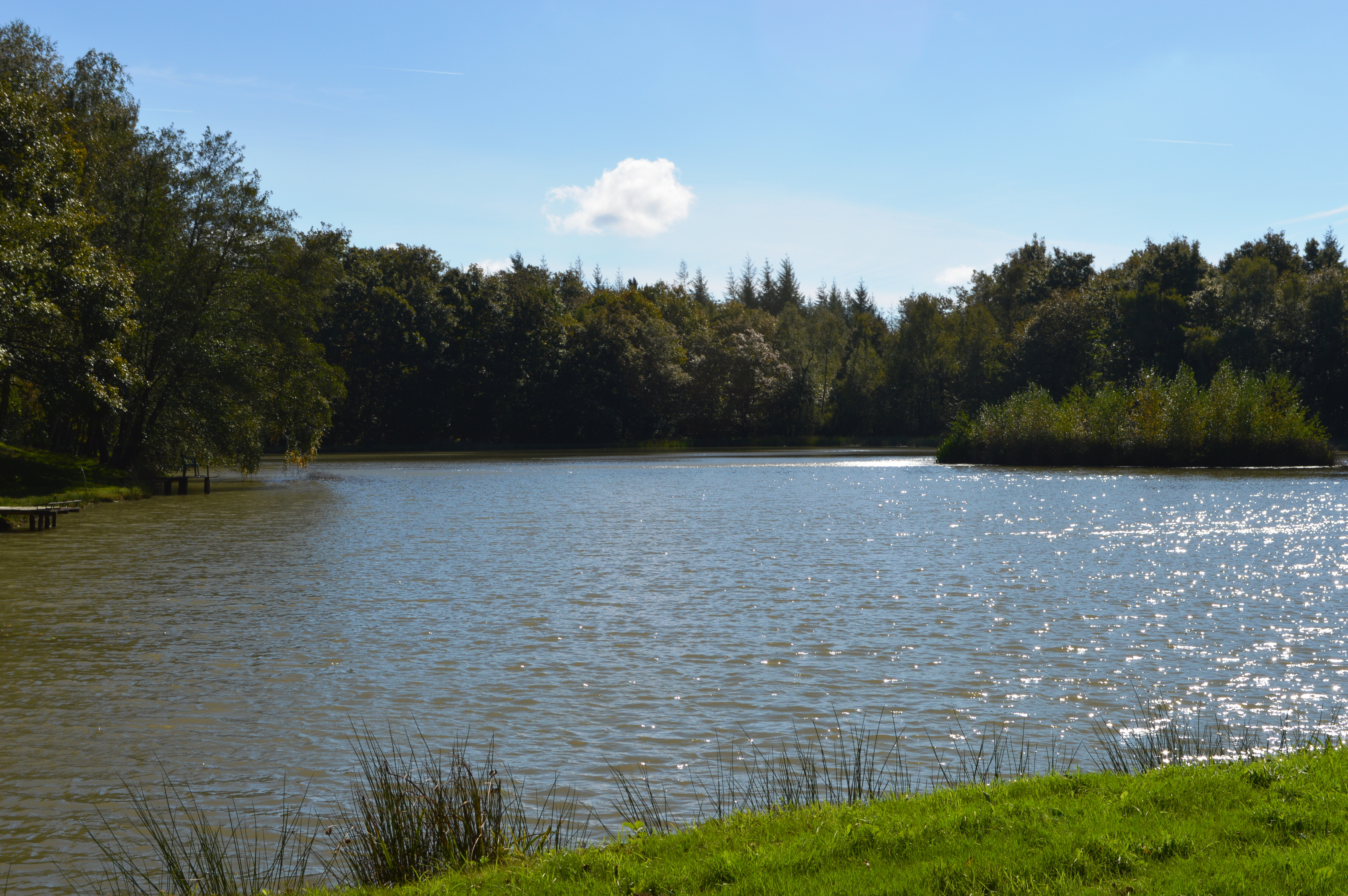 Étang Pelisson